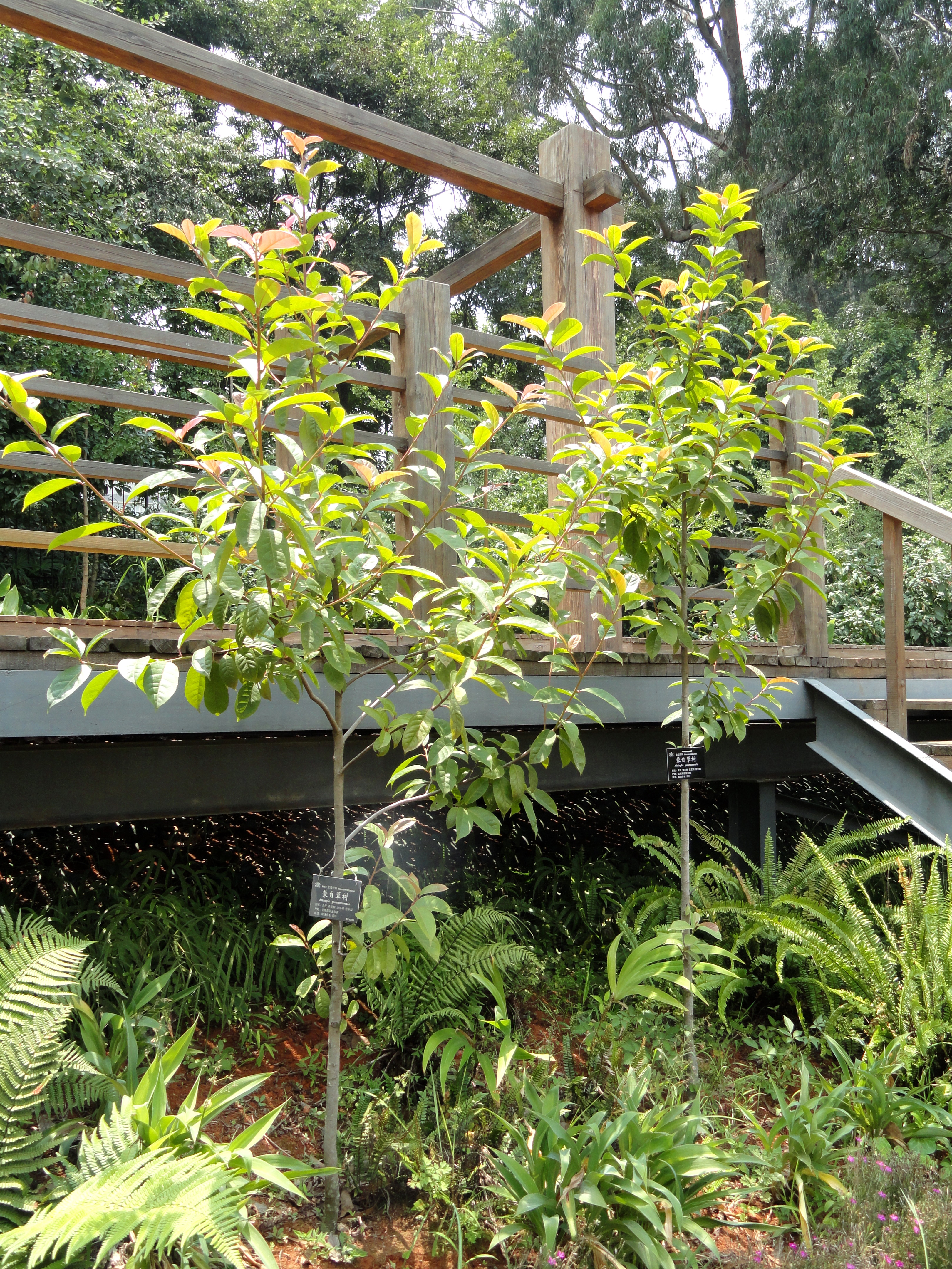 Plant specimen in the Kunming Botanical Garden, Kunming, Yunnan, China.